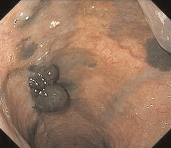 Endoscopic view of a dark gray polypoidal tumor of the esophagus at presentation.